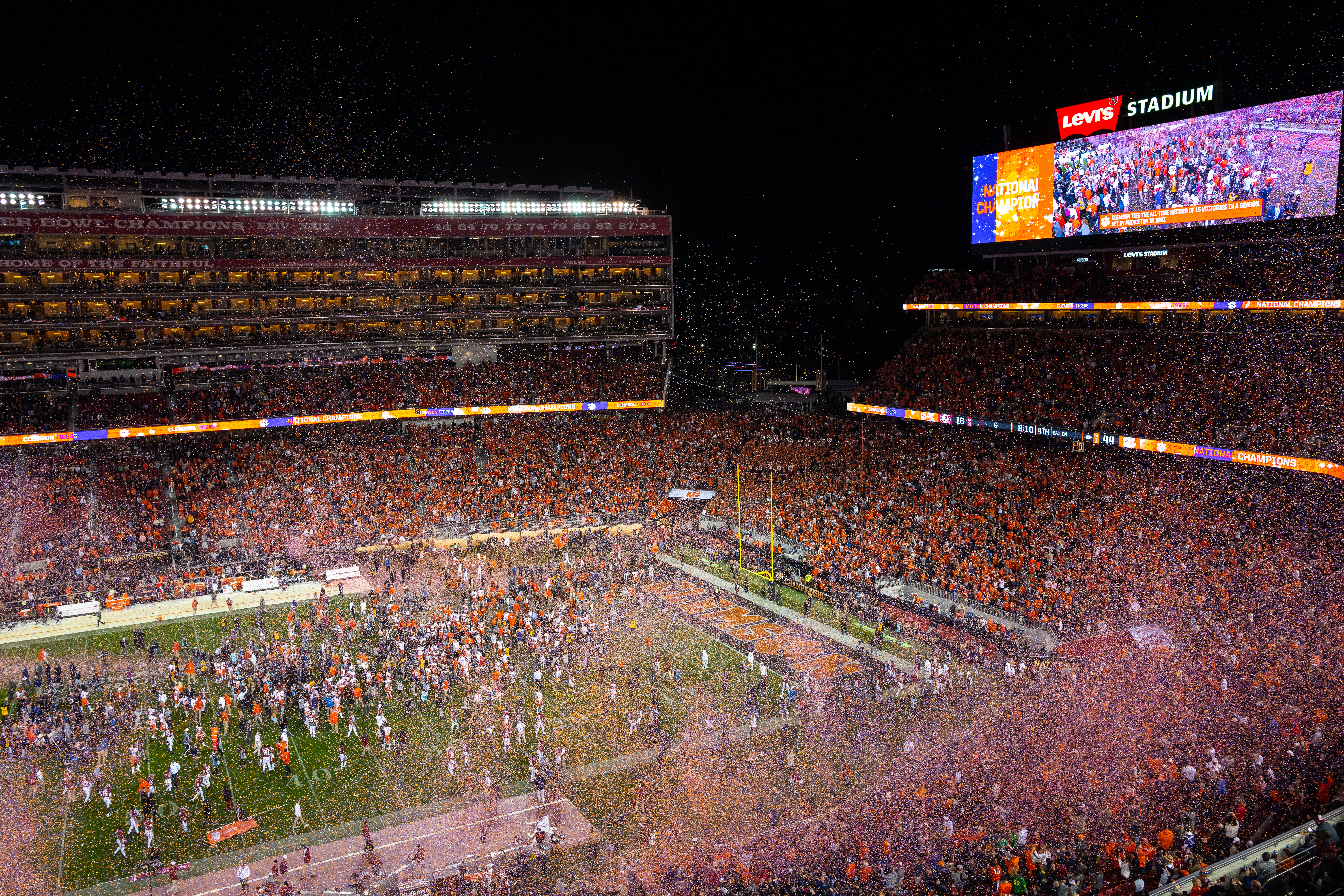 As Clemson players, coaches, and faithful celebrated their CFP National Championship victory in confetti, it was also stated that Clemson ties the all-time record of 15 victories in a season, set by Princeton in 1897.